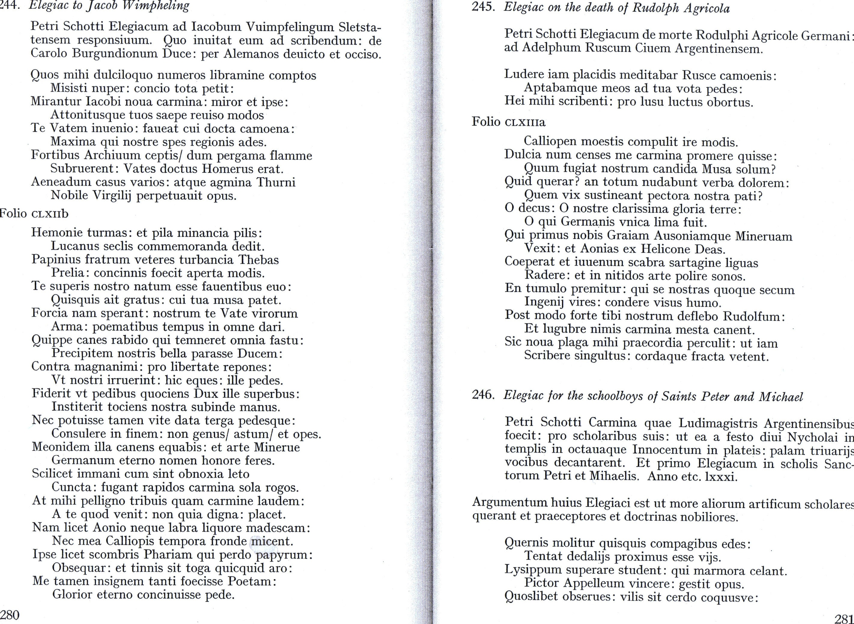 Elegiac to Jakob Wimpfeling